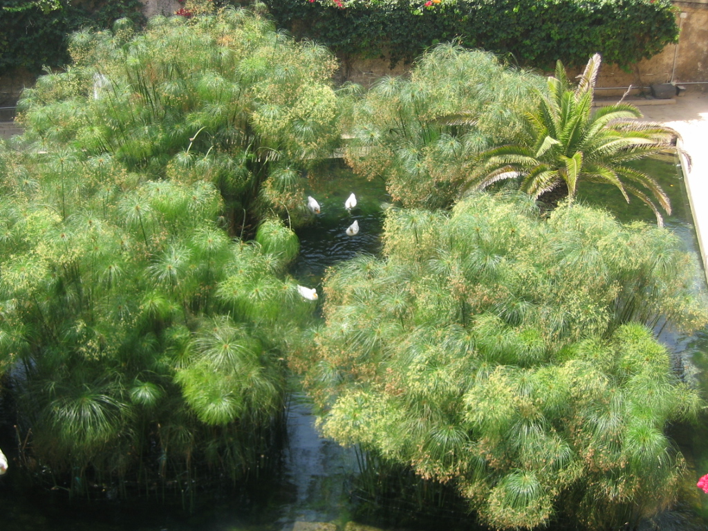 Arethuse's spring ("Fonte di Aretusa") in Syracuse, Italy. It is a fresh-water spring curiously springing along the sea shore. Known since the Greek time, it was rearranged in the semi-circular lake which can be admired today (filled with fresh-water fish and papyrus) only in 1847, demolishing the upper part of the Spanish bulwark still surrounding it, which had been built in 1540. Author: Urban Body: Canon Powershot A80